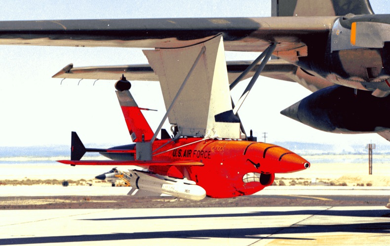 1972 UAV, First strike drone, carrying two TV-Guided Mavericks.